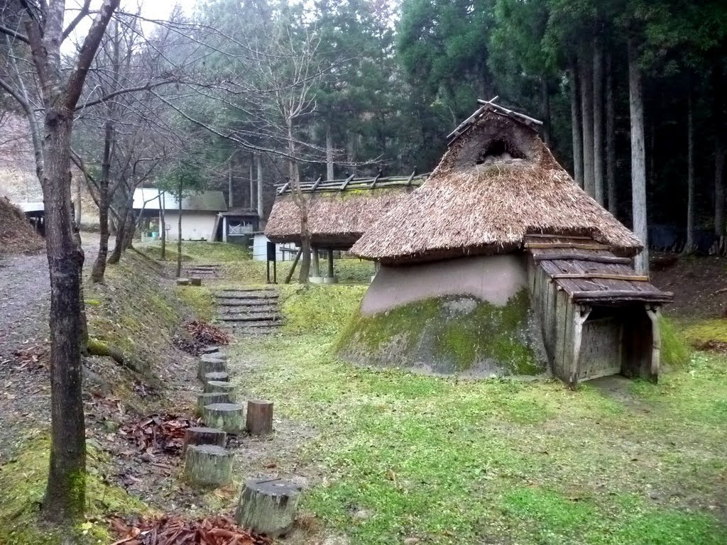 Ojiro-Kodai-Taiken-no-Mori